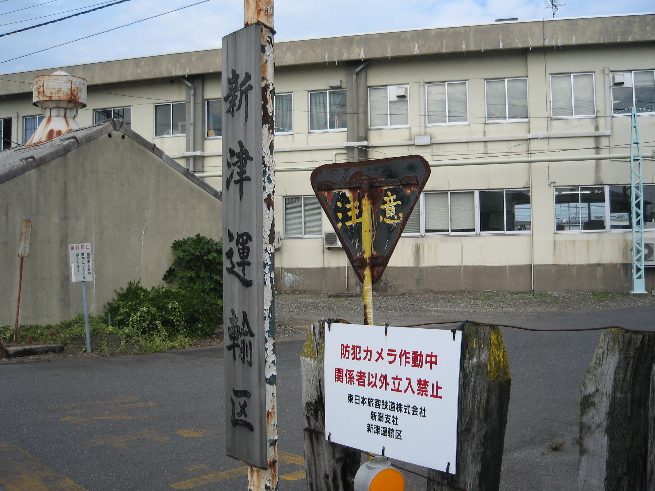 JR East Niitsu Transportation Depot